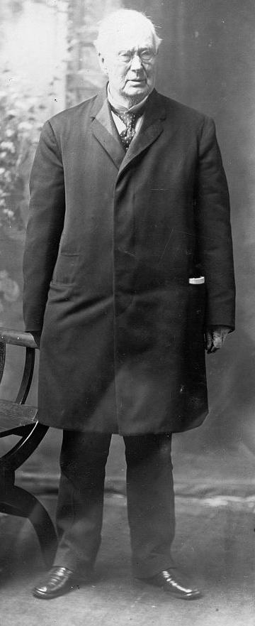 Senator George Frisbie Hoar, full-length portrait, standing, facing slightly right.